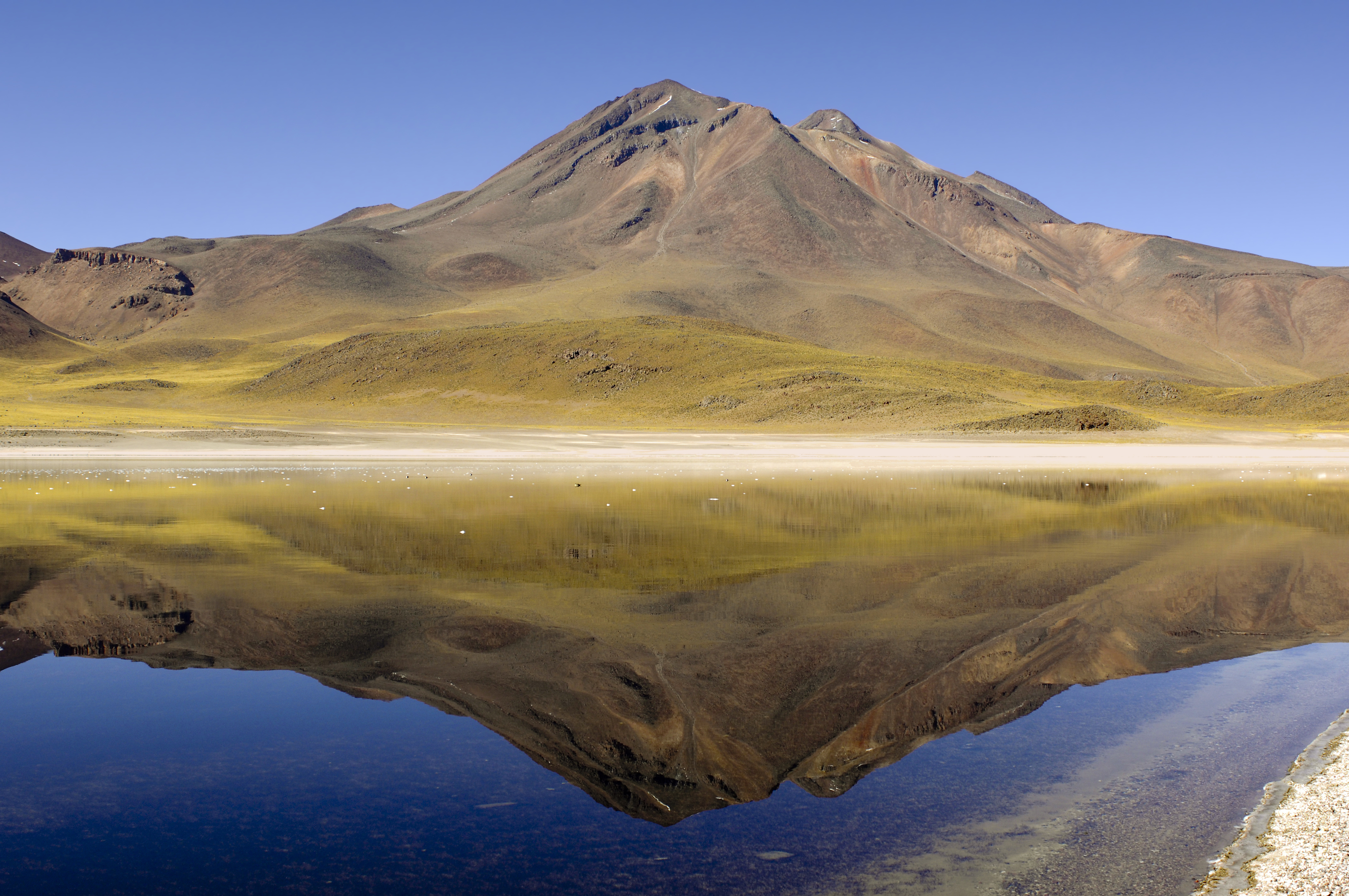 Laguna Miscanti, at an altitude of 13,517 feet (4,120m) is located in the Antofagasta Region of Northern Chile.